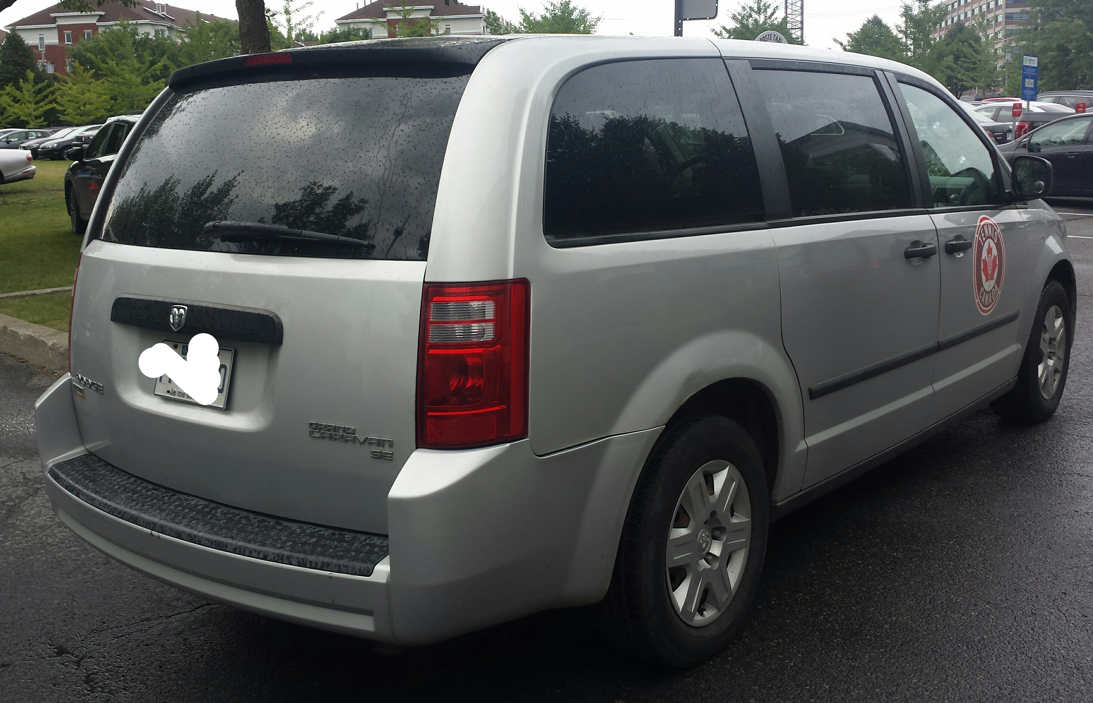 2009-2010 Dodge Grand Caravan Tennis Canada photographed in Montreal, Quebec, Canada. }